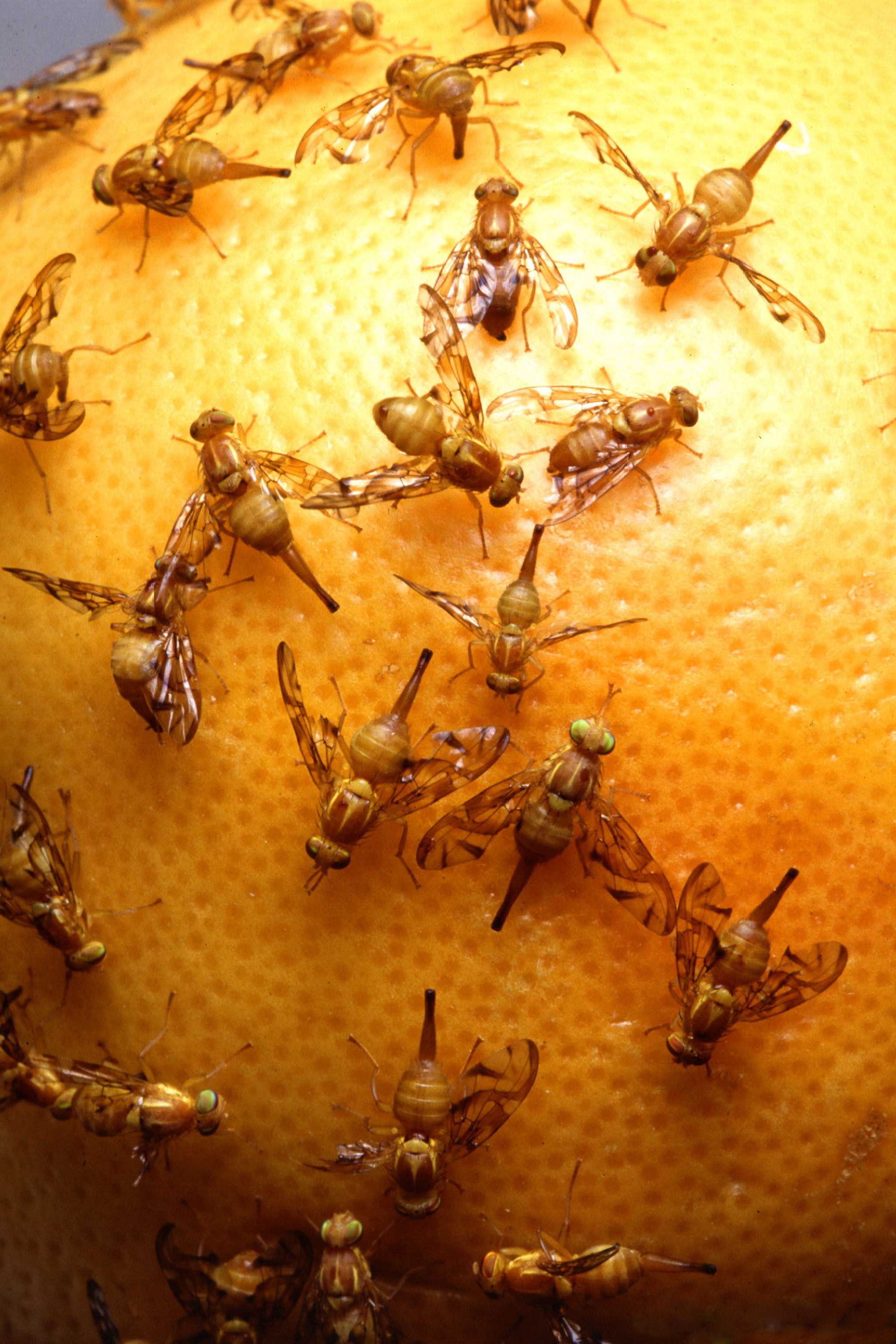 Anastrepha ludens Loew Common Name: Mexican fruit fly Photographer: Jack Dykinga, USDA Agricultural Research Service, United States Contact: USDA ARS Photo Unit, USDA Agricultural Research Service Descriptor: Adult(s) Description: Mexican fruit flies laying eggs in grapefruit before a test of the reduced-oxygen treatment. Image taken in: United States